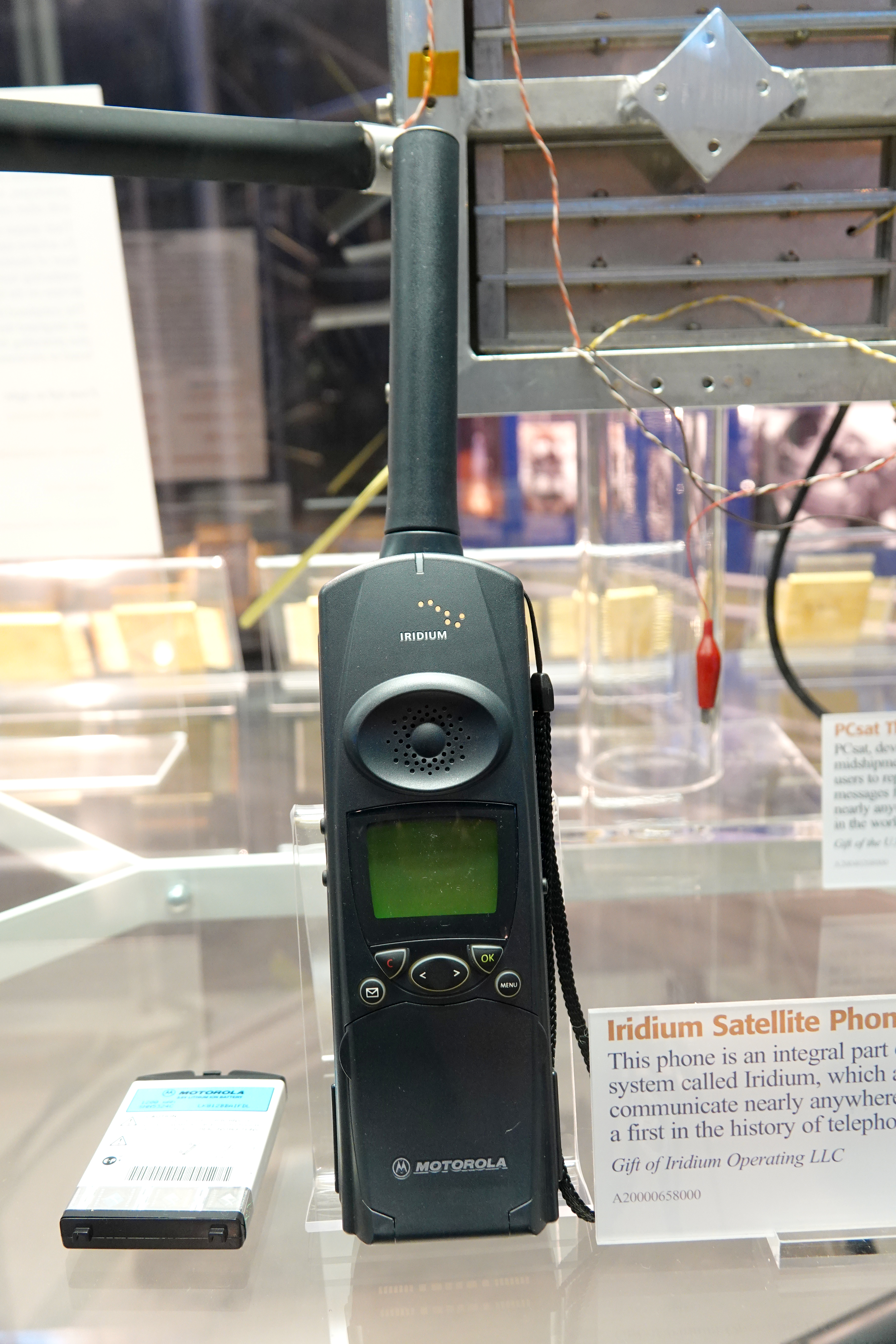 This phone is an integral part of a space-based system called Iridium, which allows users to communicate nearly anywhere in the world, a first in the history of telephony. A Gift of Iridium Operating LLC. Picture taken at the National Air and Space Museum's Steven F. Udvar-Hazy Center in Chantilly, Virginia, USA.